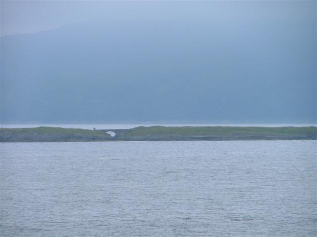 Bridge between the two high points of Eilean Musdile.